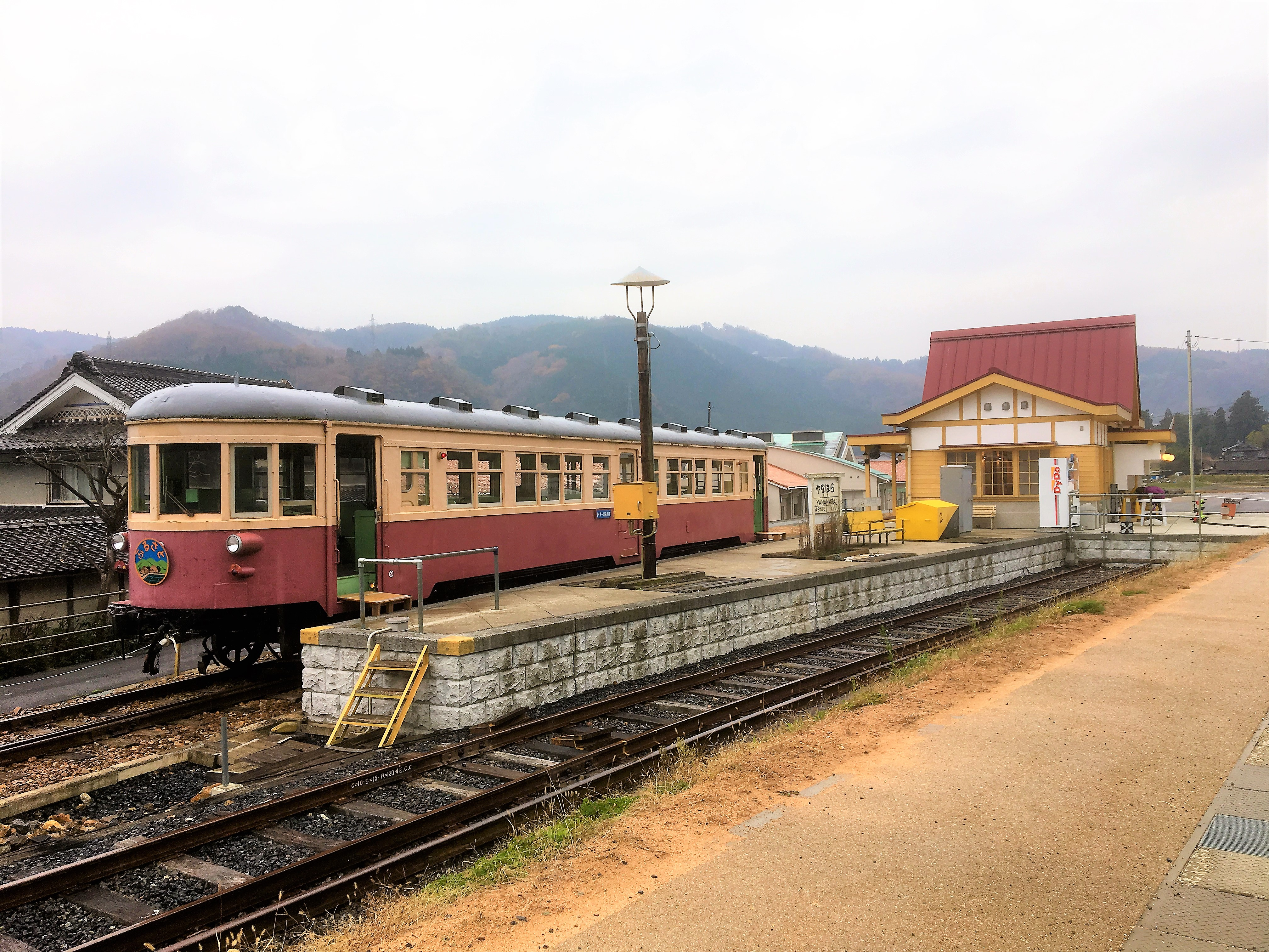 KOUFUKU-YANAHARA-station okayama-pref JAPAN TYPE-KIHA702 train